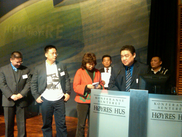 Feng Congde (2nd left) and Wu'er Kaixi (behind podium) in Oslo